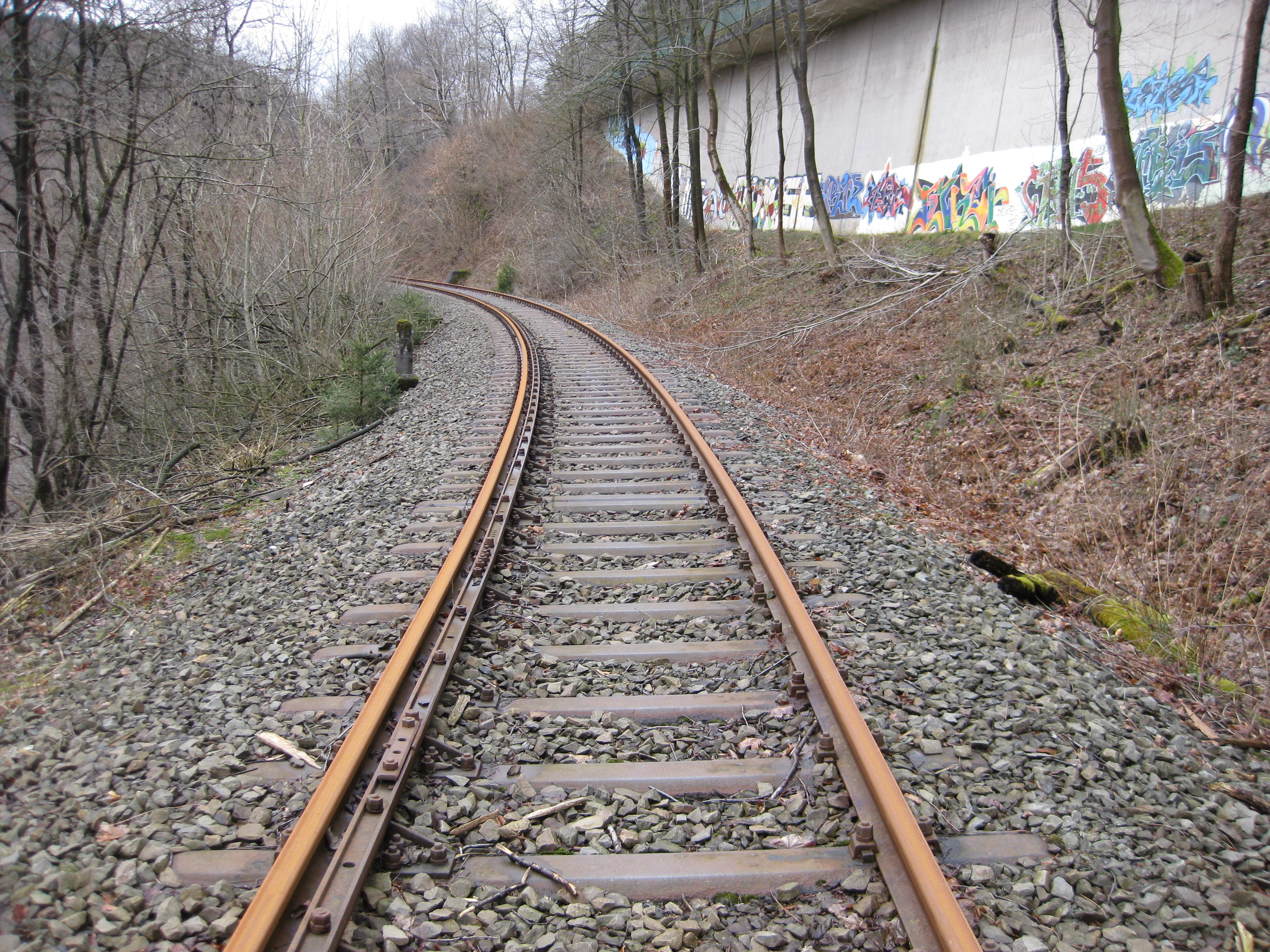 Location where the Dahlerau Train Desaster happened nearly 40 years ago.